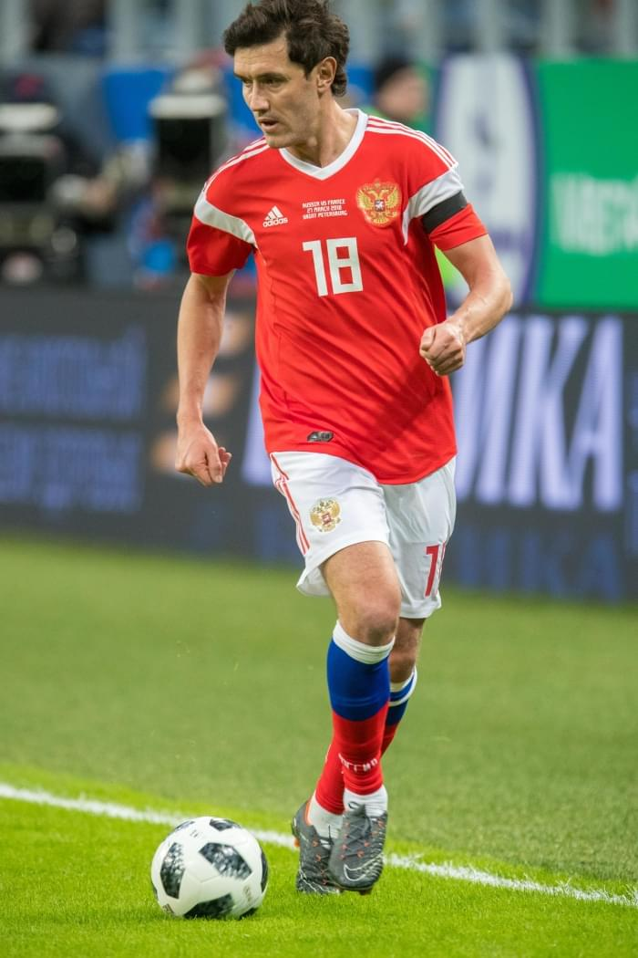 27.03.2018. Россия, Санкт-Петербург, «Санкт-Петербург». Товарищеский матч «Россия» — «Франция».